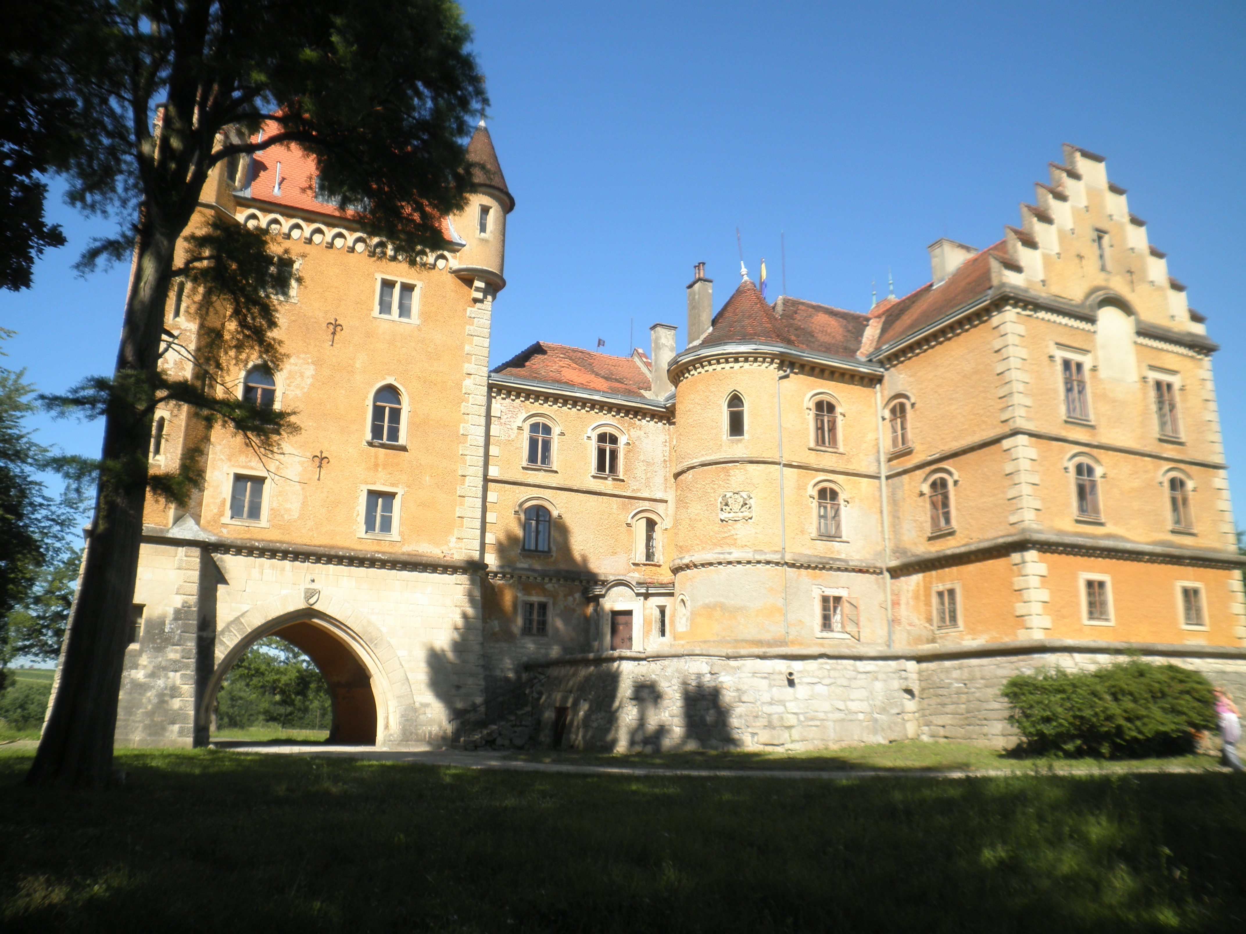 Maruševec Castle